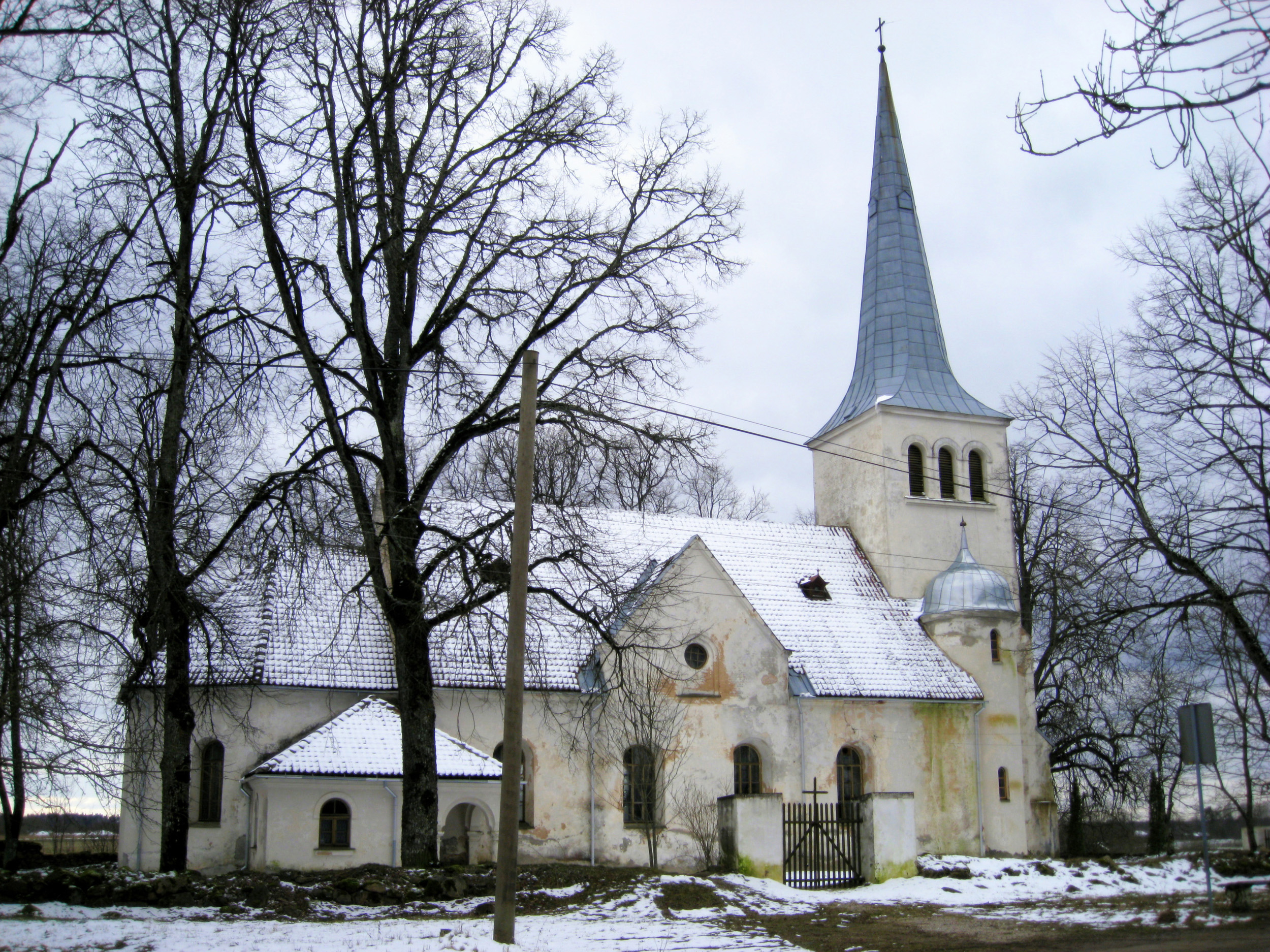 Kabile Evangelical Lutheran Church in Jaunāmuiža, Latvia